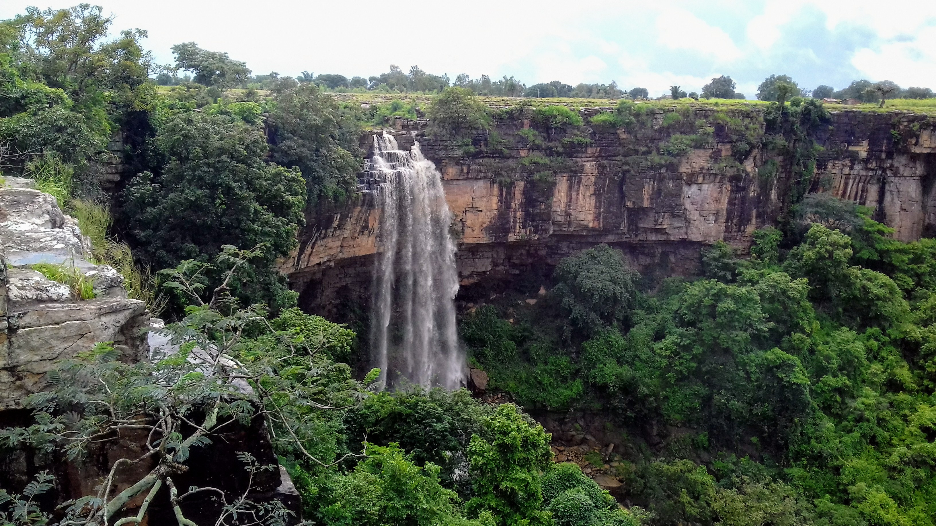 Mendri-Ghumar Waterfalls taken on 27 Aug 2017